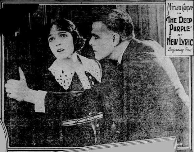 Newspaper advertisement for the American film The Deep Purple (1920) with Miriam Cooper and Vincent Serrano, overlapping ads for other films removed from image, on page 12 of the May 28, 1921 Duluth Herald.